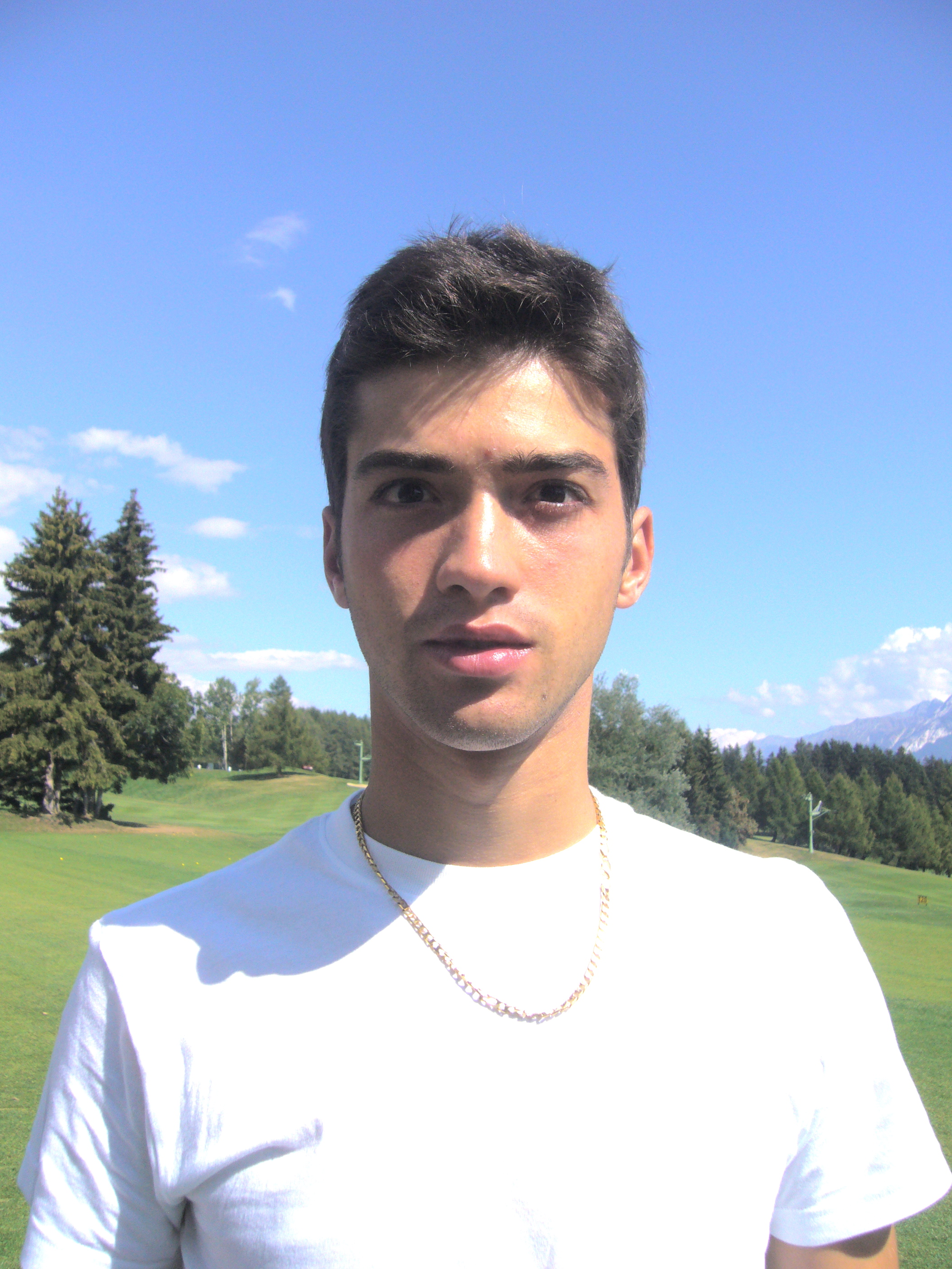 Andrea Chiapuzzo, Italian golfer, at Swiss Open